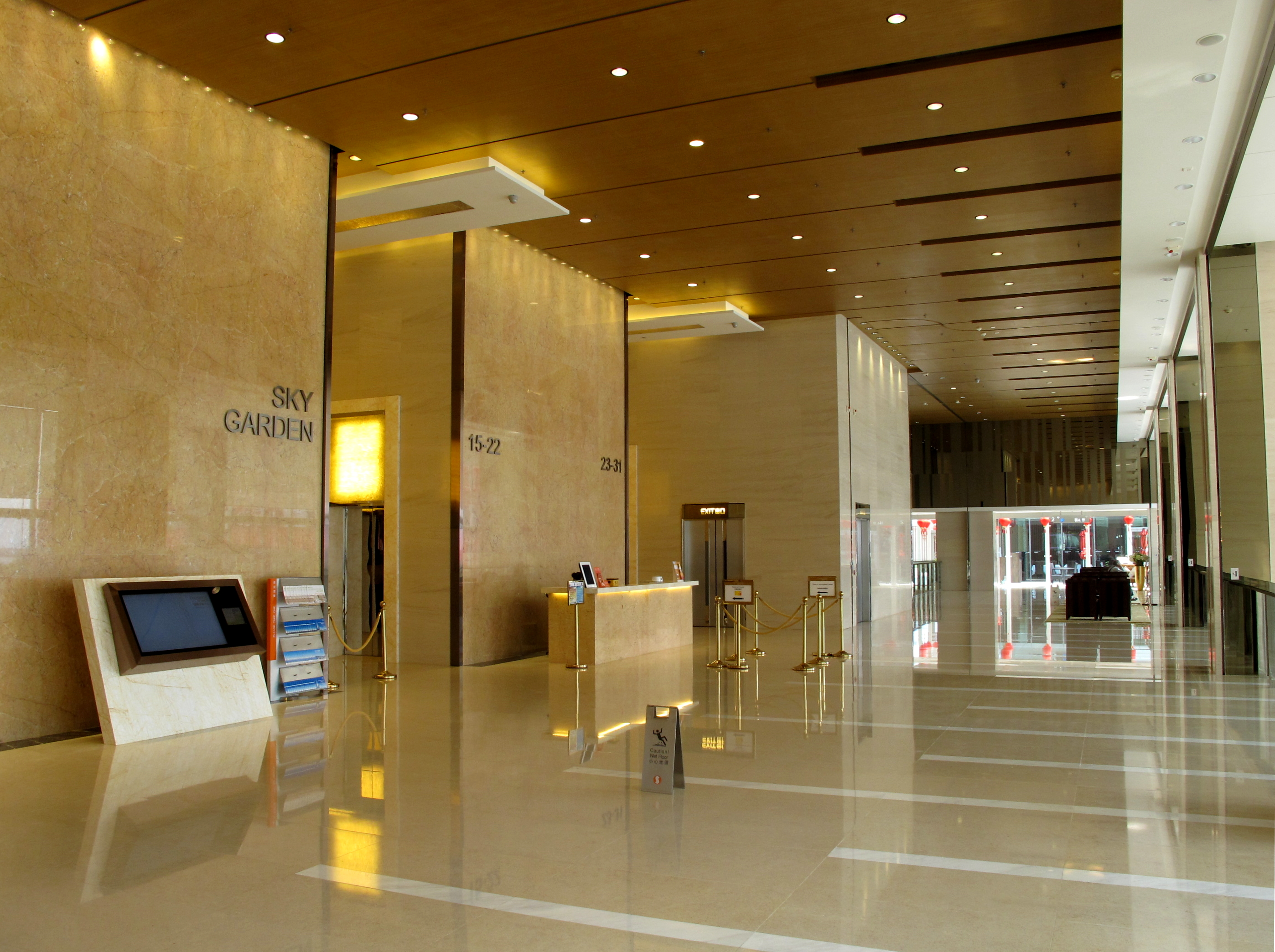 Exchange Tower Office Lobby